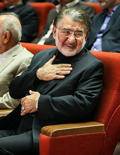 Yahya Ale Eshaq in Islamic Coalition Party congress